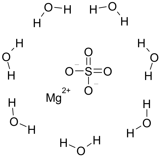 Made by Janz